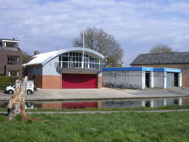 Fitzwilliam College new Boat House Recently constructed next to Cambridgeshire Rowing Association. The billygoat device refers to the club's tagline "Billy expects", itself a reference to the college's colloquial monicker "Fitzbillie's".